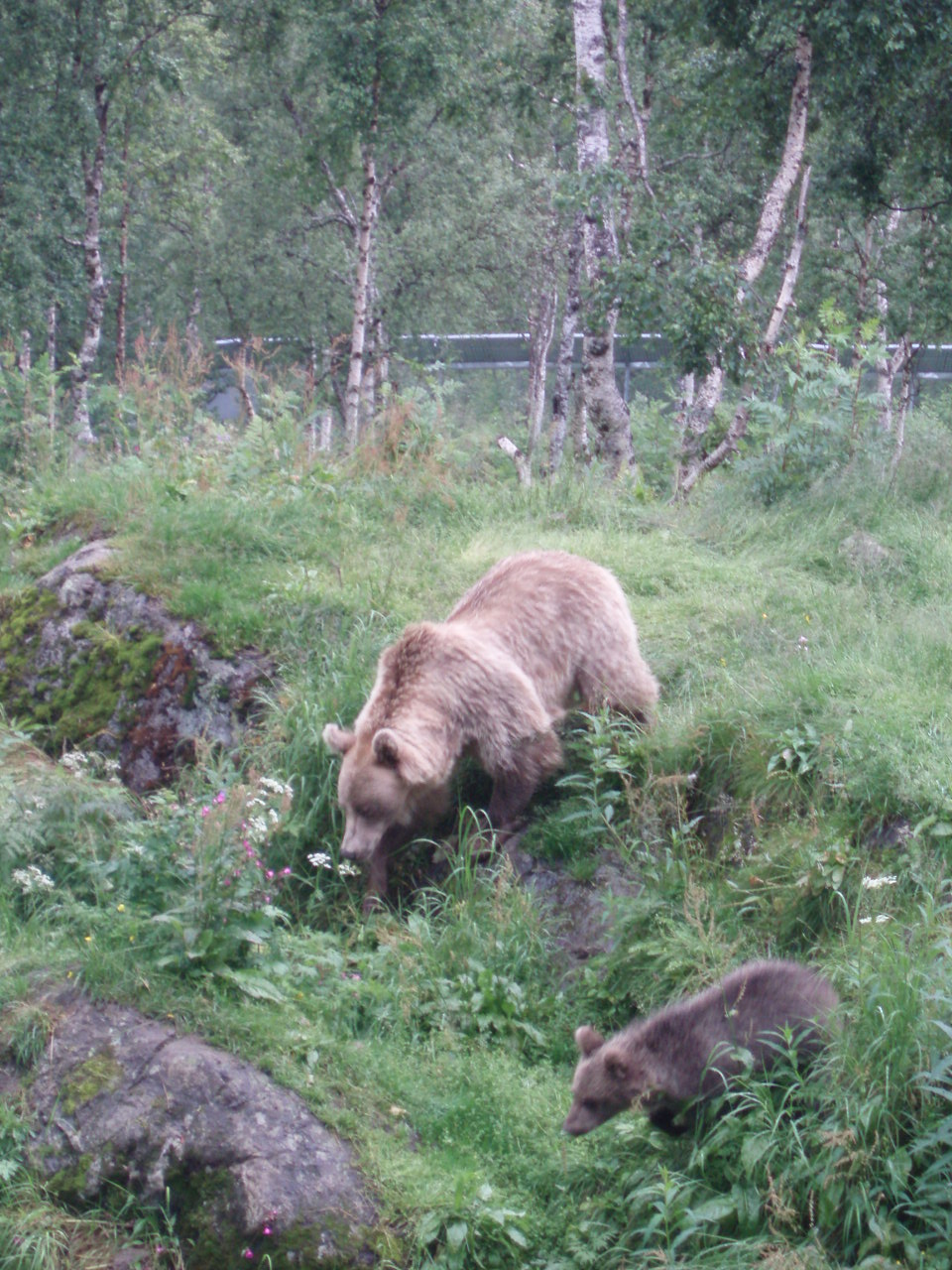 Bear, Ursus arctos, female and cub, Polar Zoo, Bardu, Norway